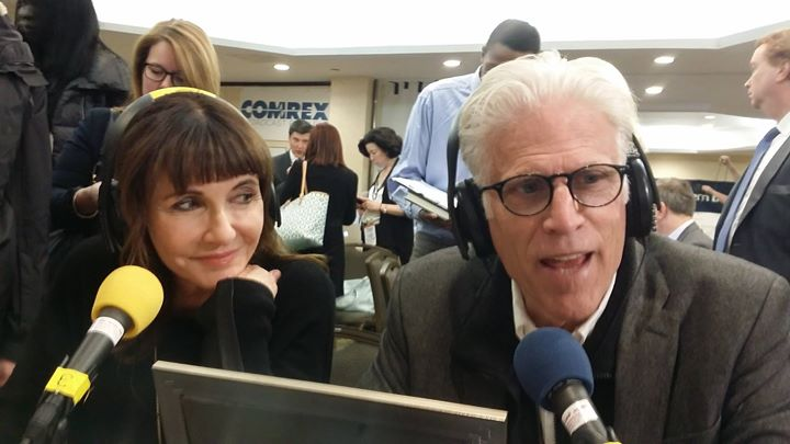 Mary Steenburgen and Ted Danson at "Girard at Large" in Manchester, New Hampshire.